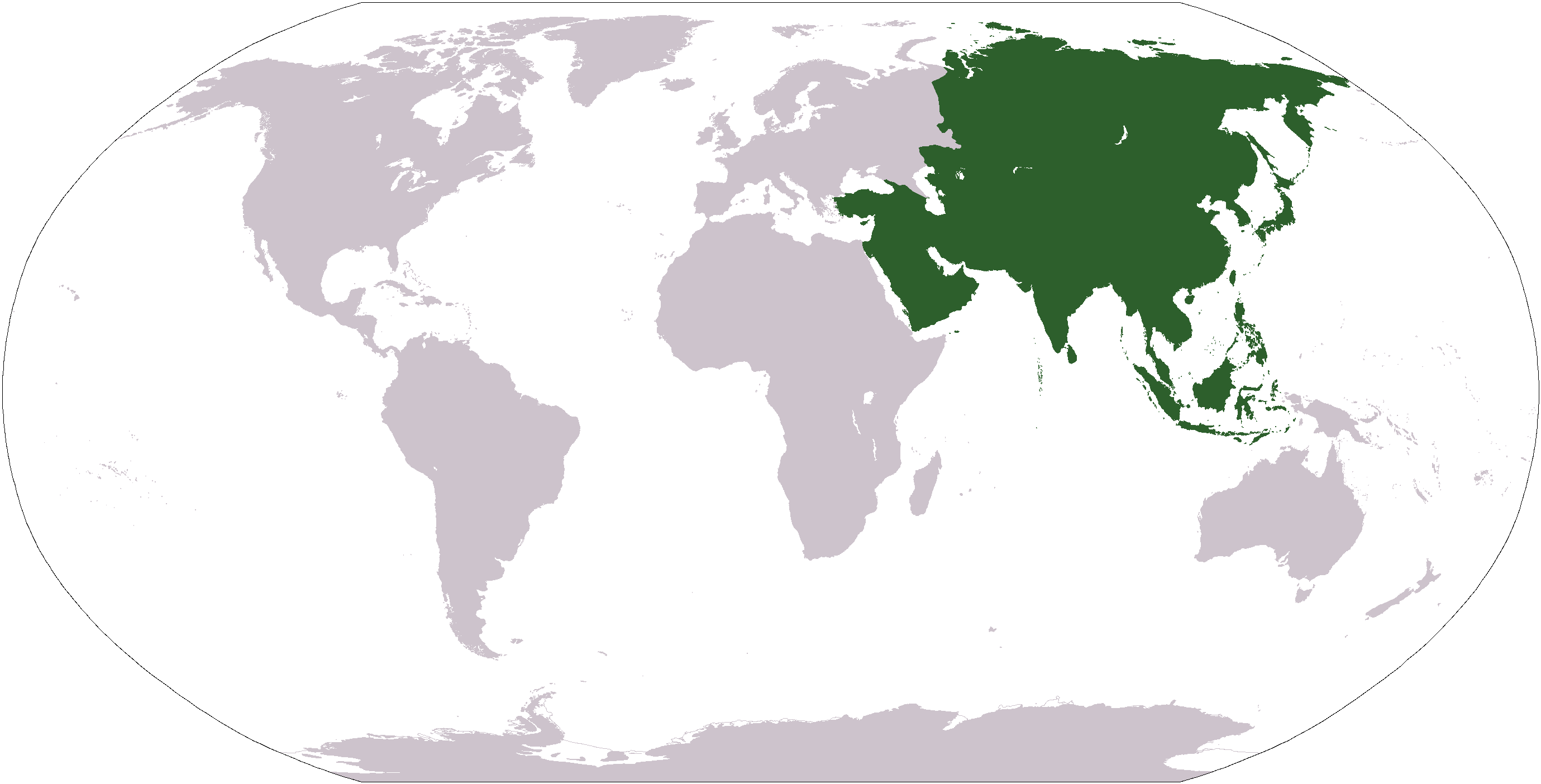 World map depicting Asia